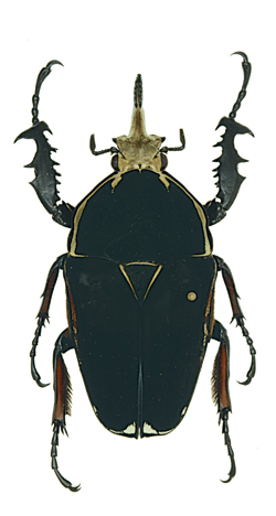 Mecynorhina ugandensis var. 17